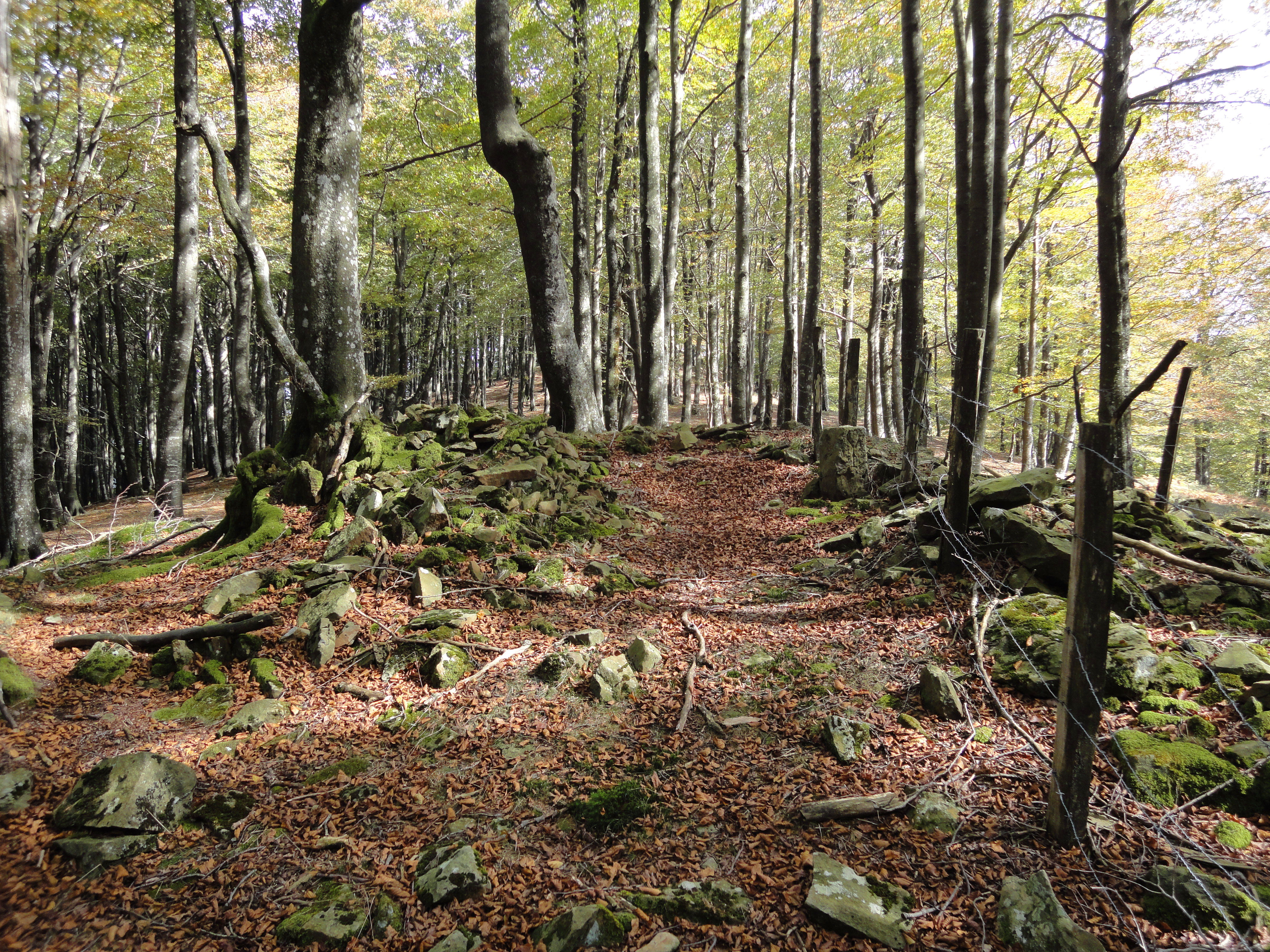 Argonitz dolmen